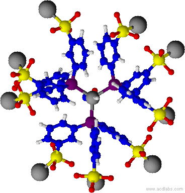 A typical rhodium catalyst (with sulfonated triphenylphosphine as ligand) used in hydroformylation process.